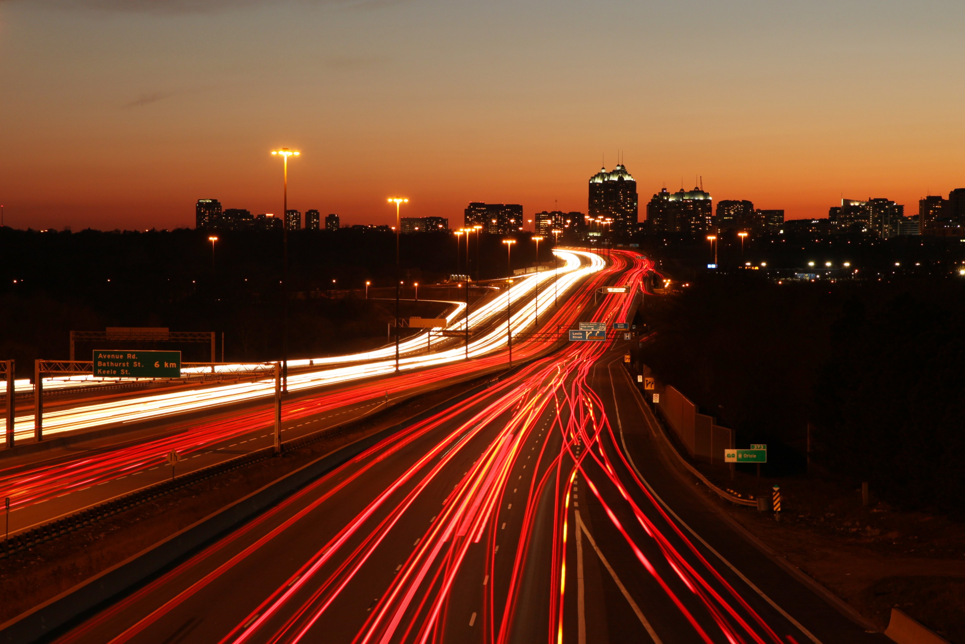 Highway 401 westbound from near the Highway 404/Don Valley Parkway interchanges.